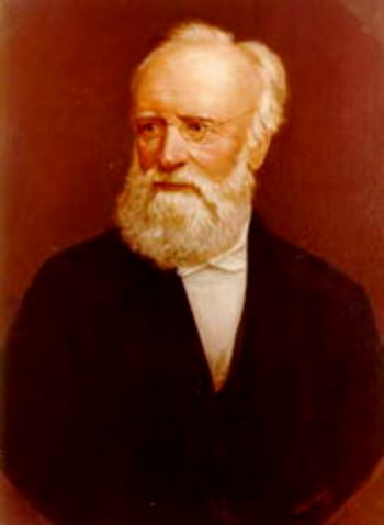 William Crawford Williamson (1816-1895), English palaeobotanist, oil painting, University Library, Manchester